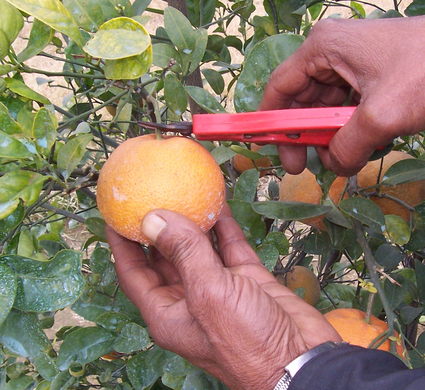 Proper method of picking Kinnow mandarin fruits by the use of secateur